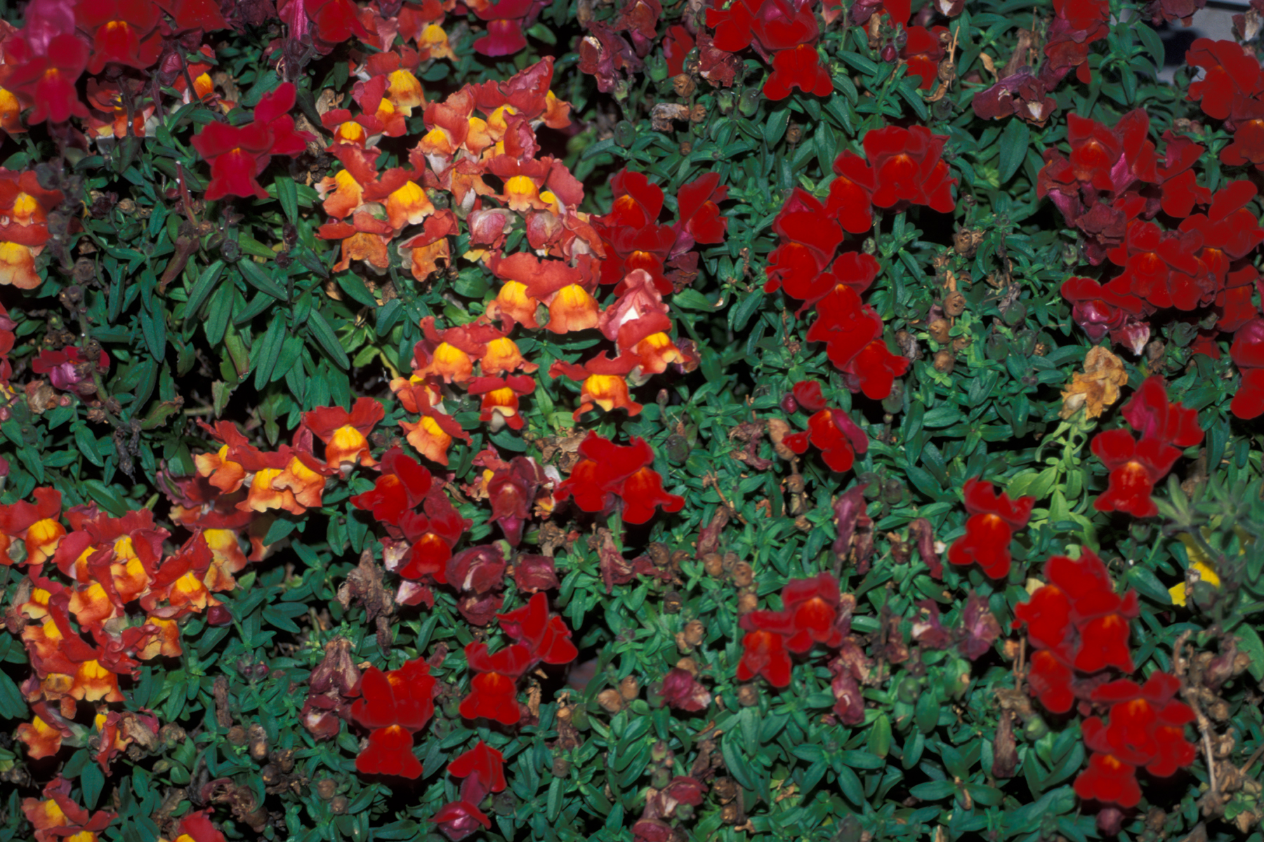 Antirrhinum majus (habit). Location: Maui, Housing Haleakala National Park